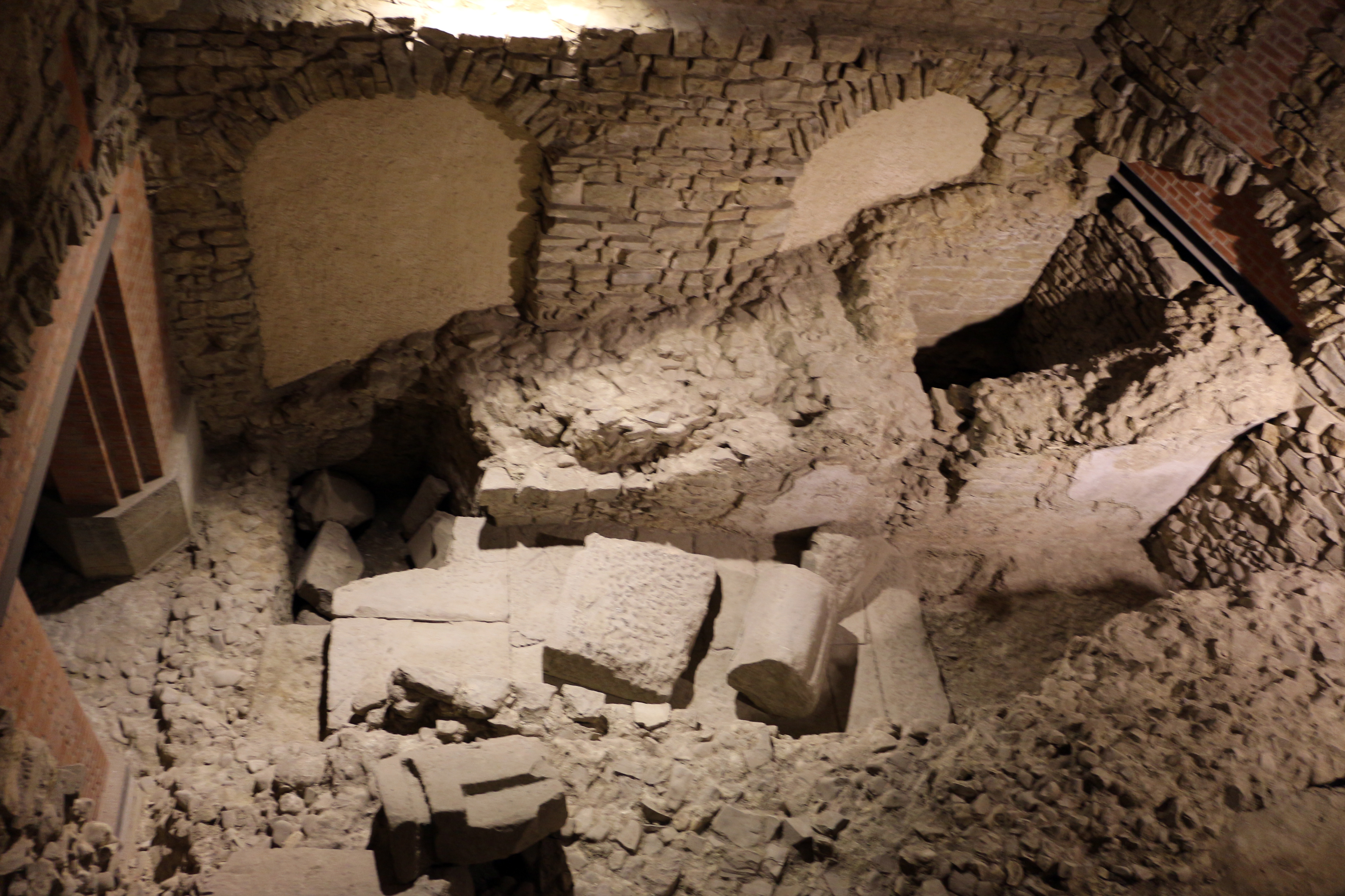 Arcaheological site of the Ancient Roman theatre of Florence